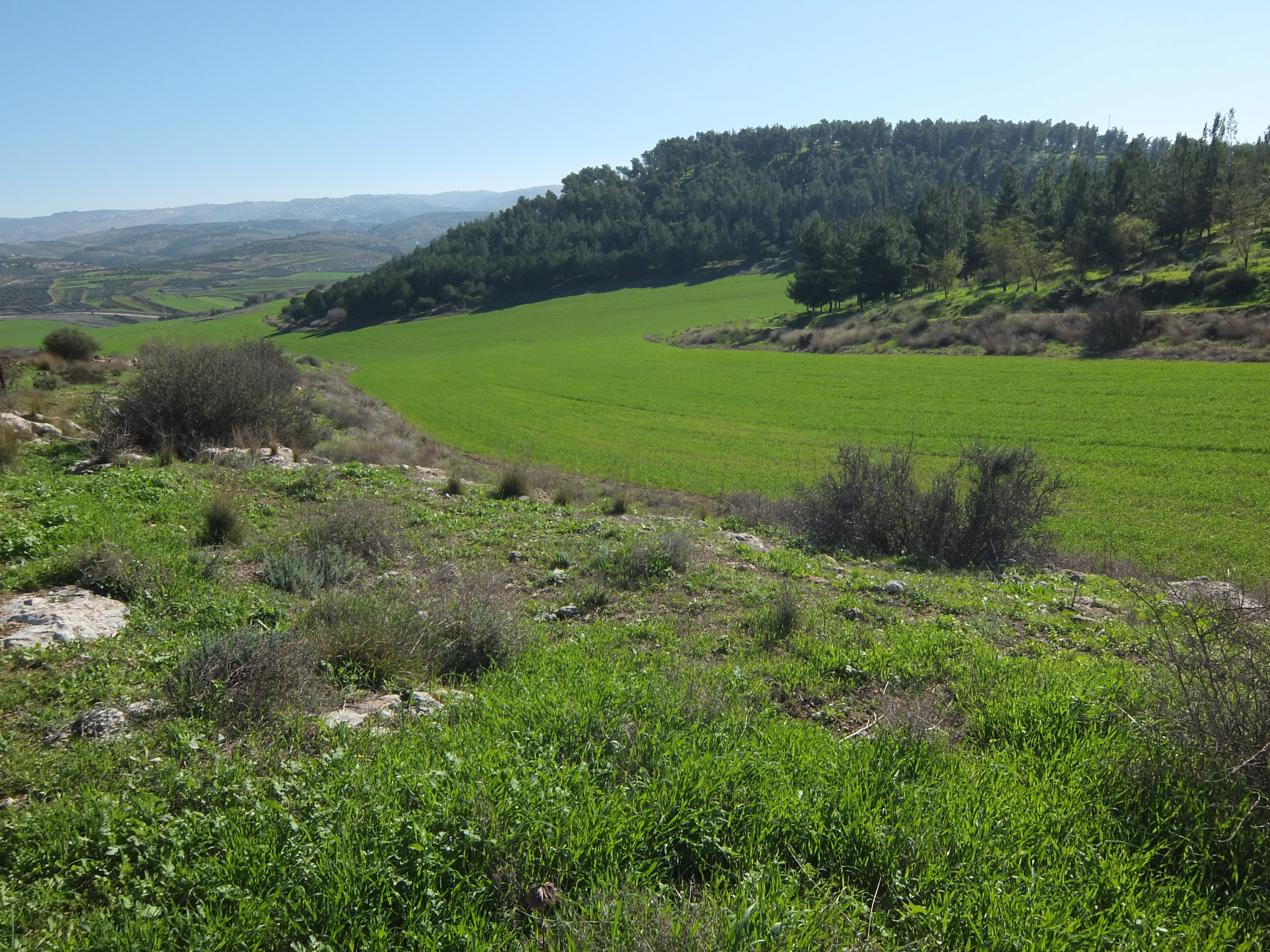 Photo taken of the hill of Adullam, now covered in pines. Photo taken by me on December 25, 2014